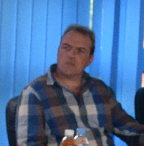 Gauteng Provincial Legislature Delegation from South Africa on a Study visit to The Office of The Ombudsman on 24th April 2018.